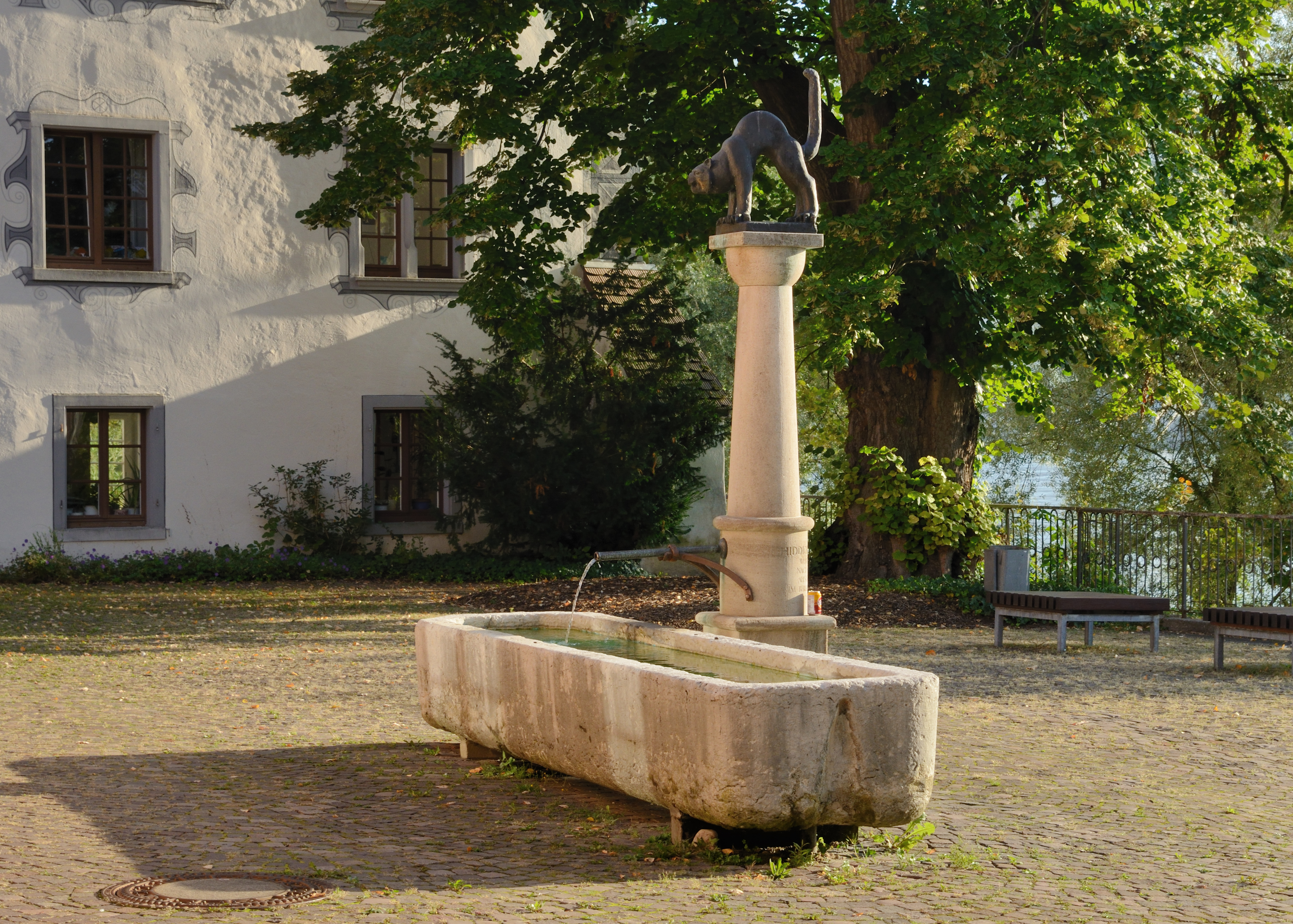 Bad Säckingen: fountain "cat Hiddigeigei"